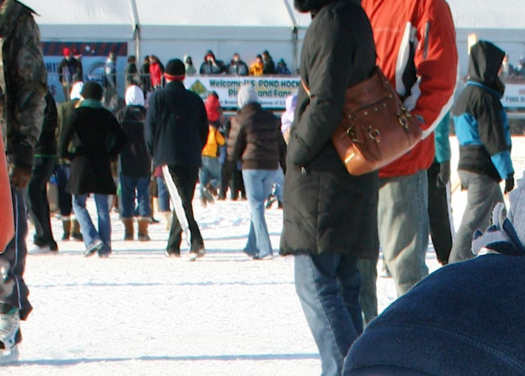 pond hockey, Lake Nokomis, Minneapolis, Minnesota. Image has been cropped/modified.